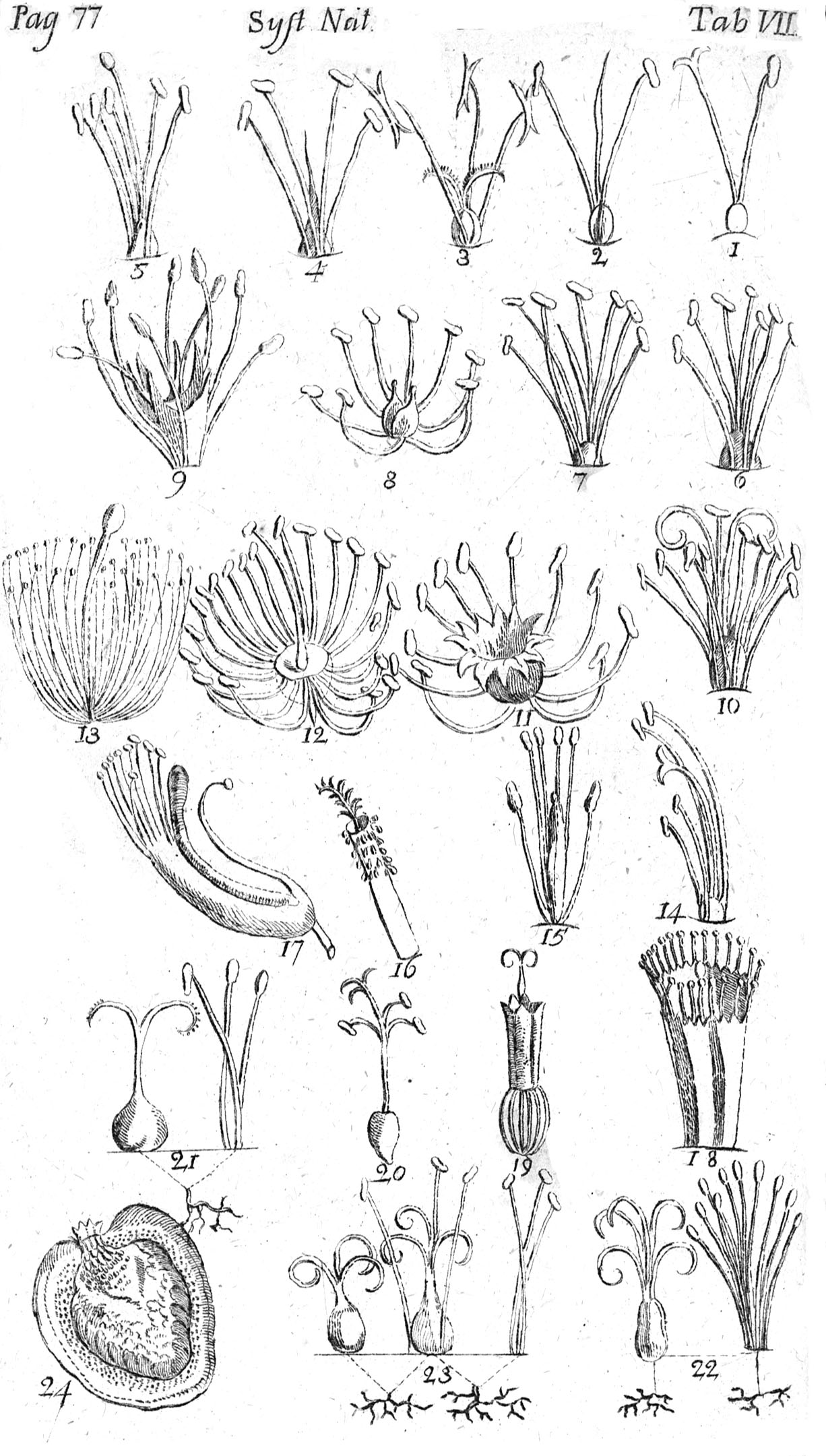 Systema Naturae, 6th edition, Plate VII: Plantarum classes secundum stamina.